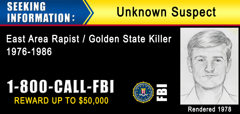 Billboard image offering US$50,000 reward for arrest and conviction of serial burglar, rapist and murderer dubbed The Original Night Stalker and other nicknames